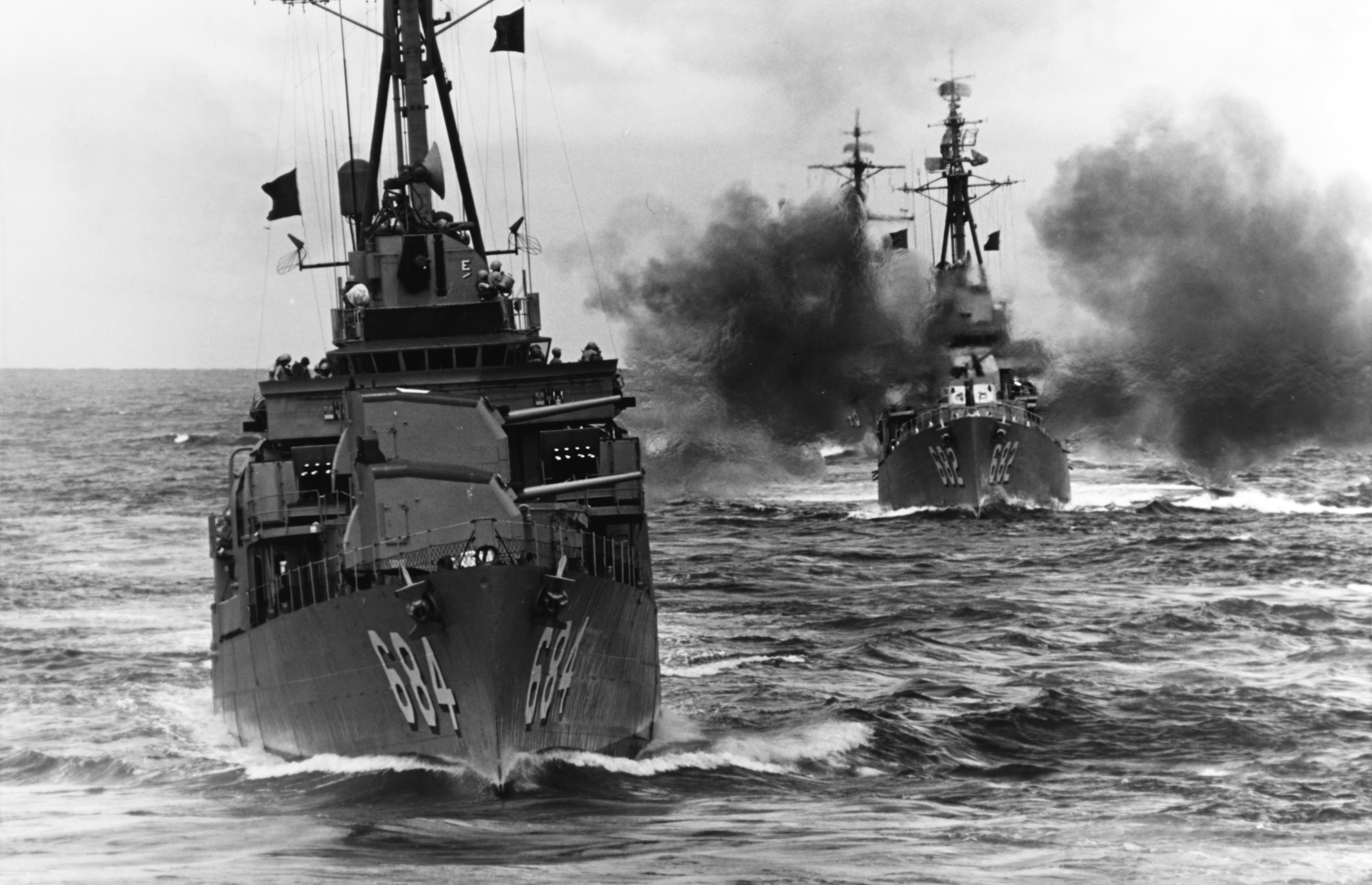 The U.S. Navy destroyer USS Wedderburn (DD-684) firing her 127mm/38 guns at a target drone aircraft during exercises on 21 August 1964. The ship following next astern is USS Porterfield (DD-682). The relative positions of Wedderburn's signal flags, with the port side red "Bravo" flag hoisted higher, indicate that the ship is firing to port. Evenly hoisted flags on Porterfield indicate that her guns are not yet trained out.